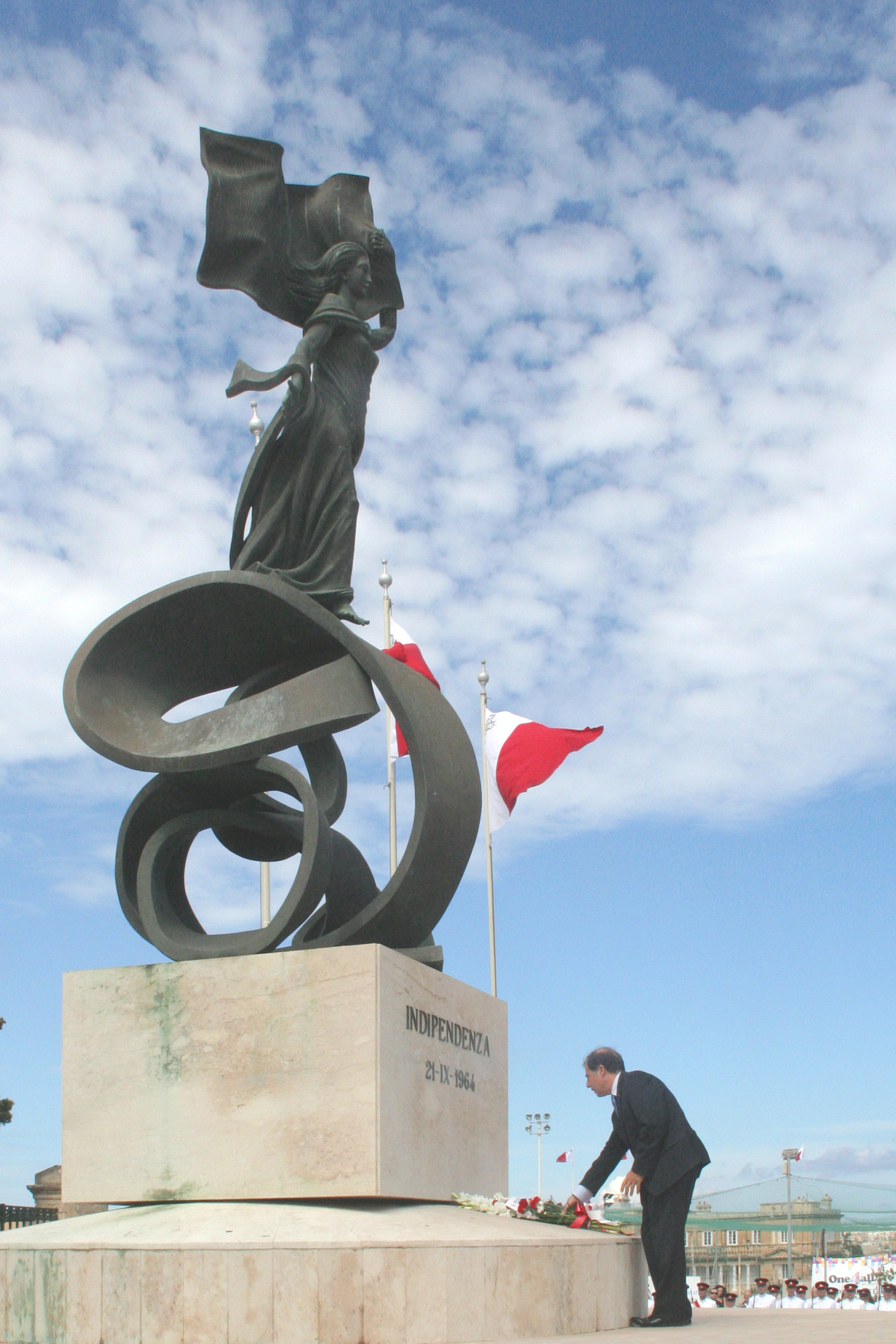 George Abela, President of Malta, lays a wreath at the Independence Monument, Independence Gardens, The Mall, Floriana.